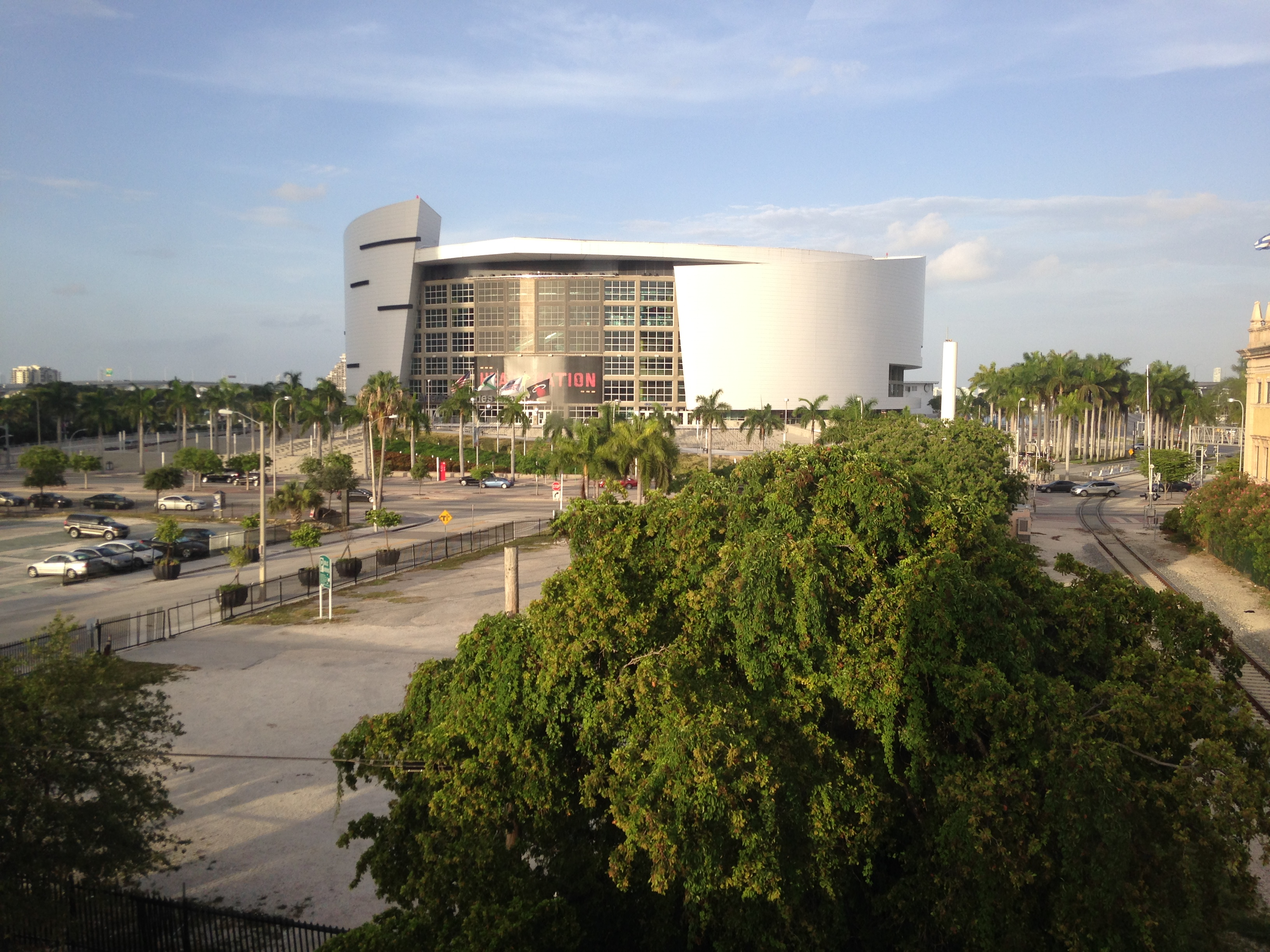 American Airlines Arena in Downtown Miami.